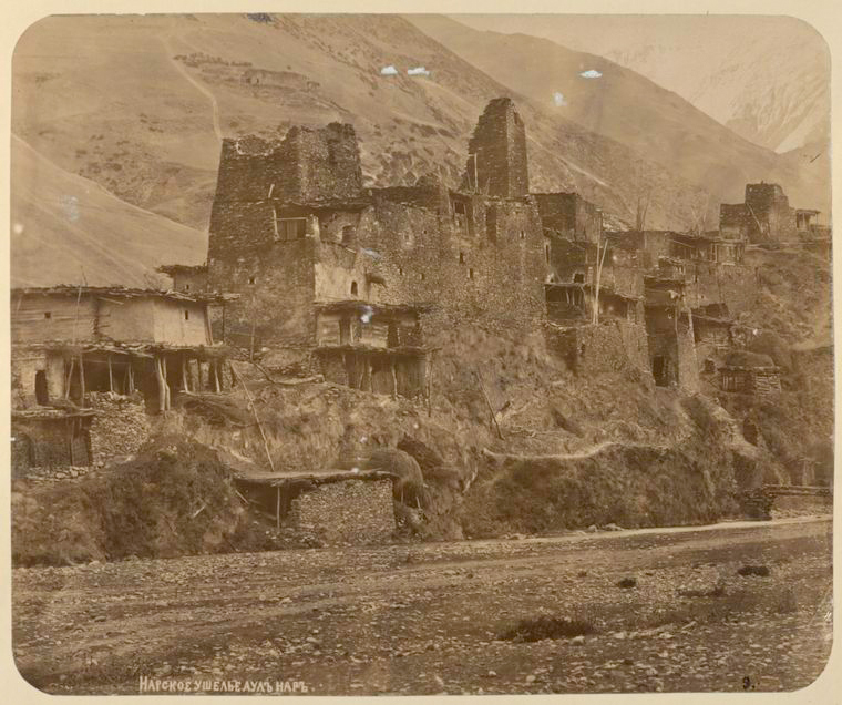 Narsk Gorge at aul Nar.